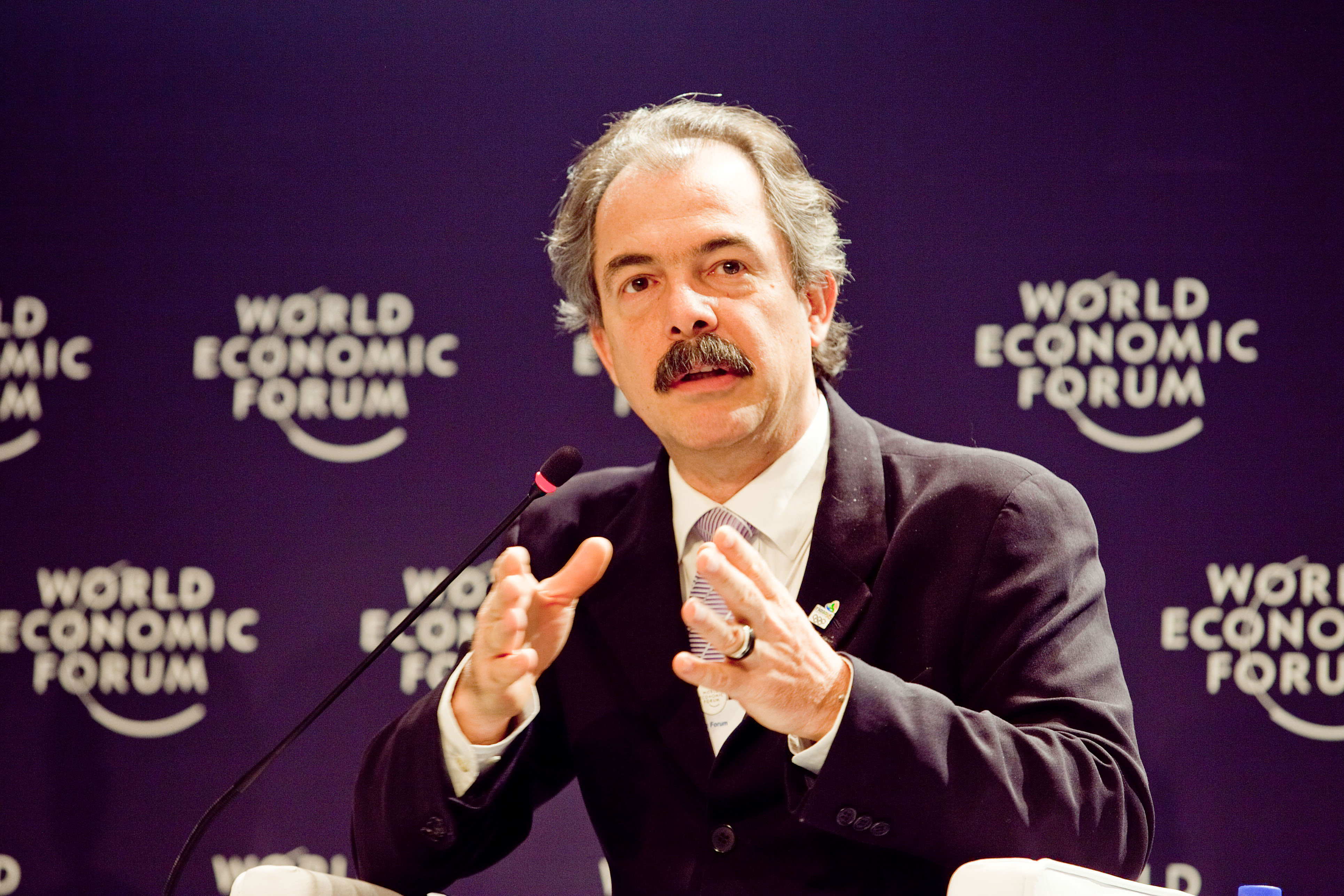 Aloizio Mercadante, Brazilian politician, speaking at the World Economic Forum on Latin America 2009 in Rio de Janeiro, Brazil.